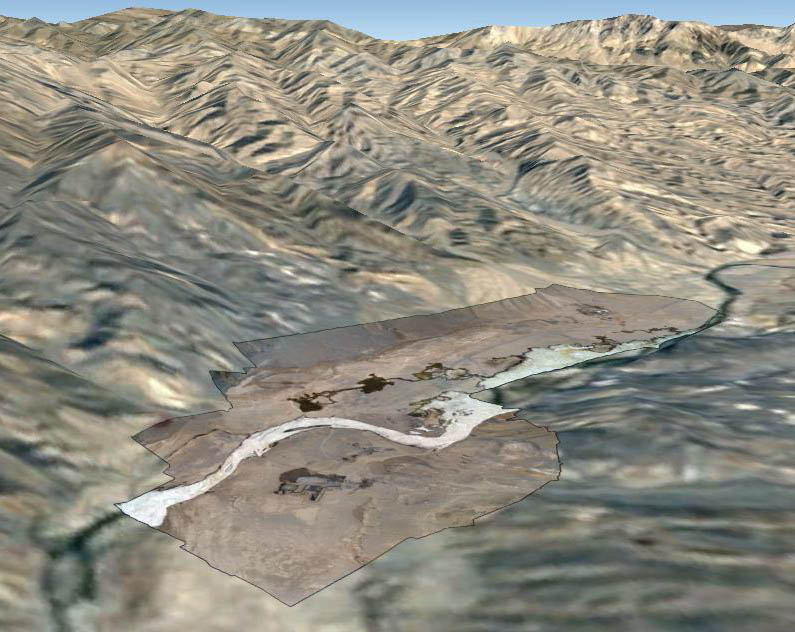 Монгол: Prepared by Numan-Altai LLC